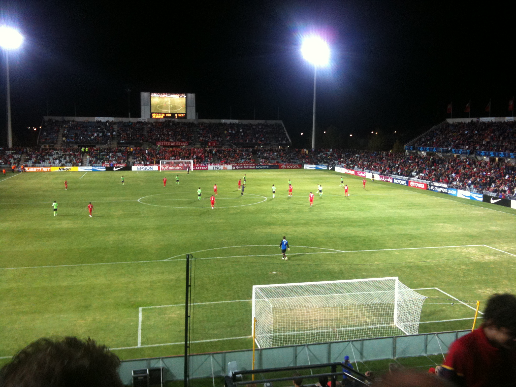 Photo taken at Hindmarsh Stadium, Adelaide. Adelaide United vs Jeonbuk Motors